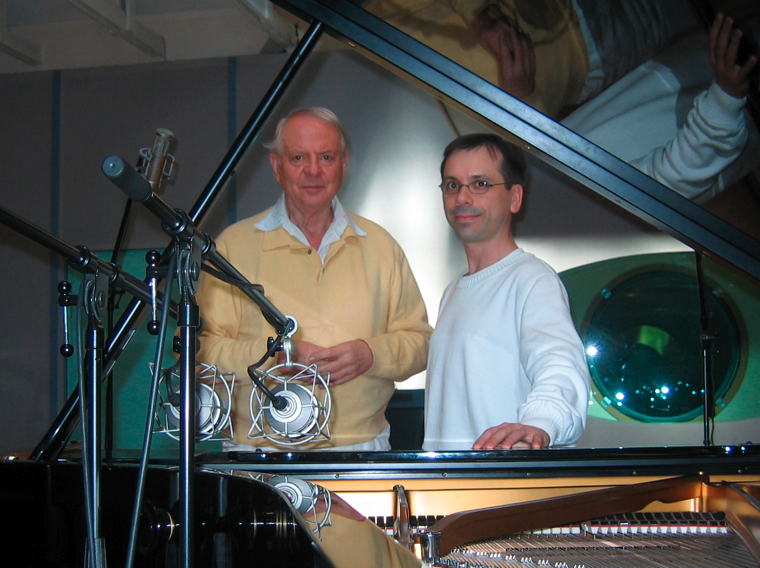 Karlheinz Stockhausen and Antonio Pérez Abellán, 2007, by Kathinka Pasveer during the recording of NATURAL DURATIONS from Klang in Cologne